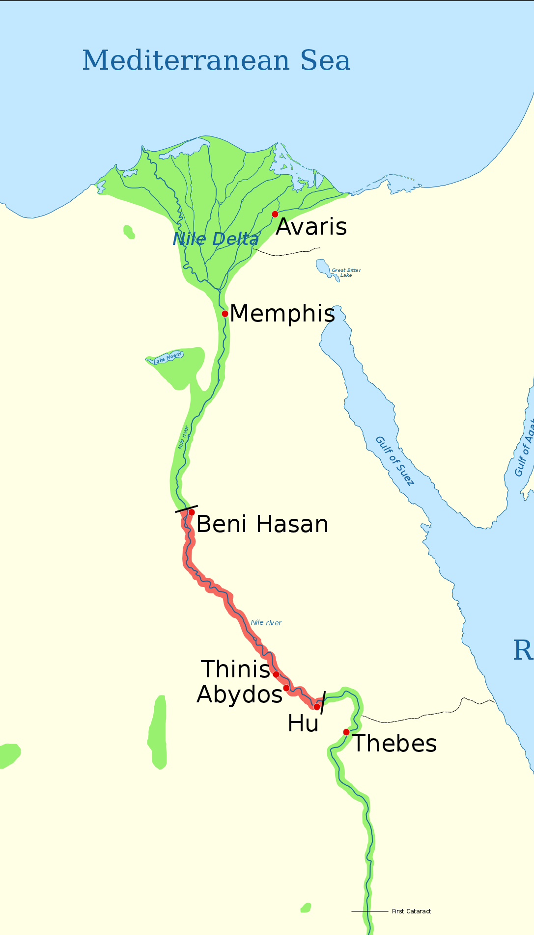 Possible extent of power of the Abydos Dynasty c. 1650 BC - 1600 BC.